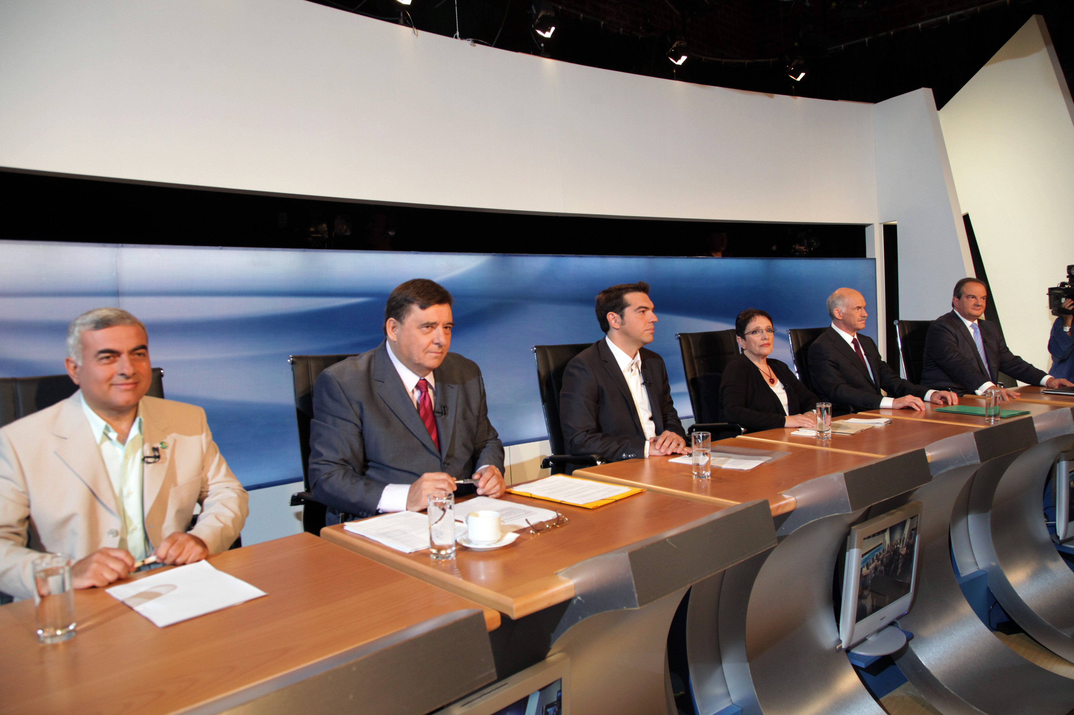 Six party leaders' televised debate ahead of the 2009 Greek legislative elections. From left to right: Nikos Chrisogelos (Ecologist Greens), Georgios Karatzaferis (LAOS), Alexis Tsipras (SYRIZA), Aleka Papariga (KKE), Giorgos Papandreou (PASOK), prime minister Kostas Karamanlis (ND).